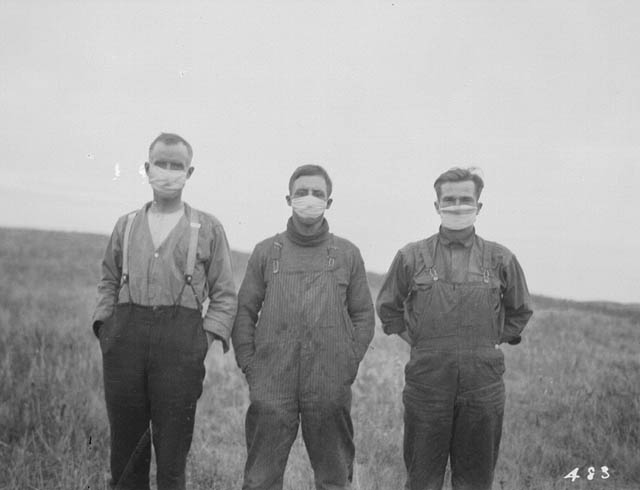 Men in an Alberta field wear masks during the Spanish flu, Fall 1918, Canada.